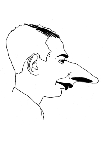 Şerban Ţiţeica (1908-1985), Romanian physicistDrawing by Gheorghe Manu (1903-1961), Romanian physicist